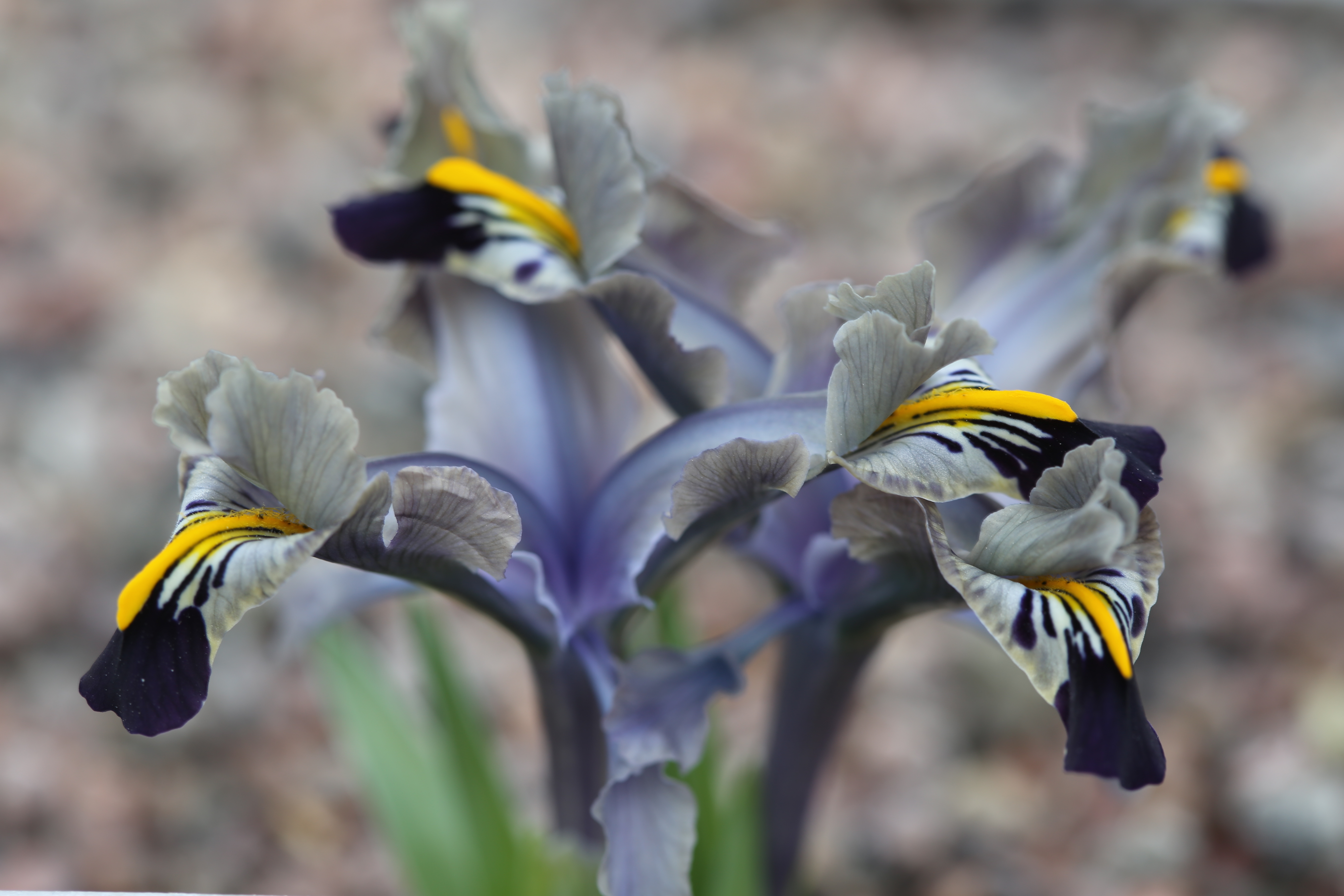 Iris stenophylla in Gothenburg Botanical Garden in 2015. Plant id: 2004-2509 p W; Zetterlund, Batman 376